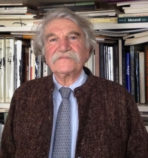 Youssef Ishaghpour portrait